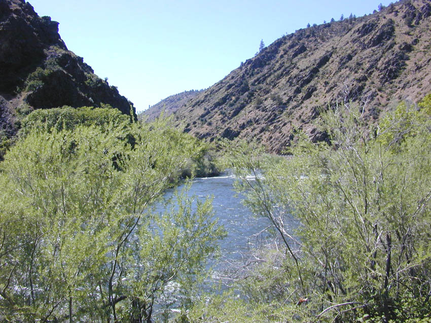 Klamath River in the high desert country of Northern California